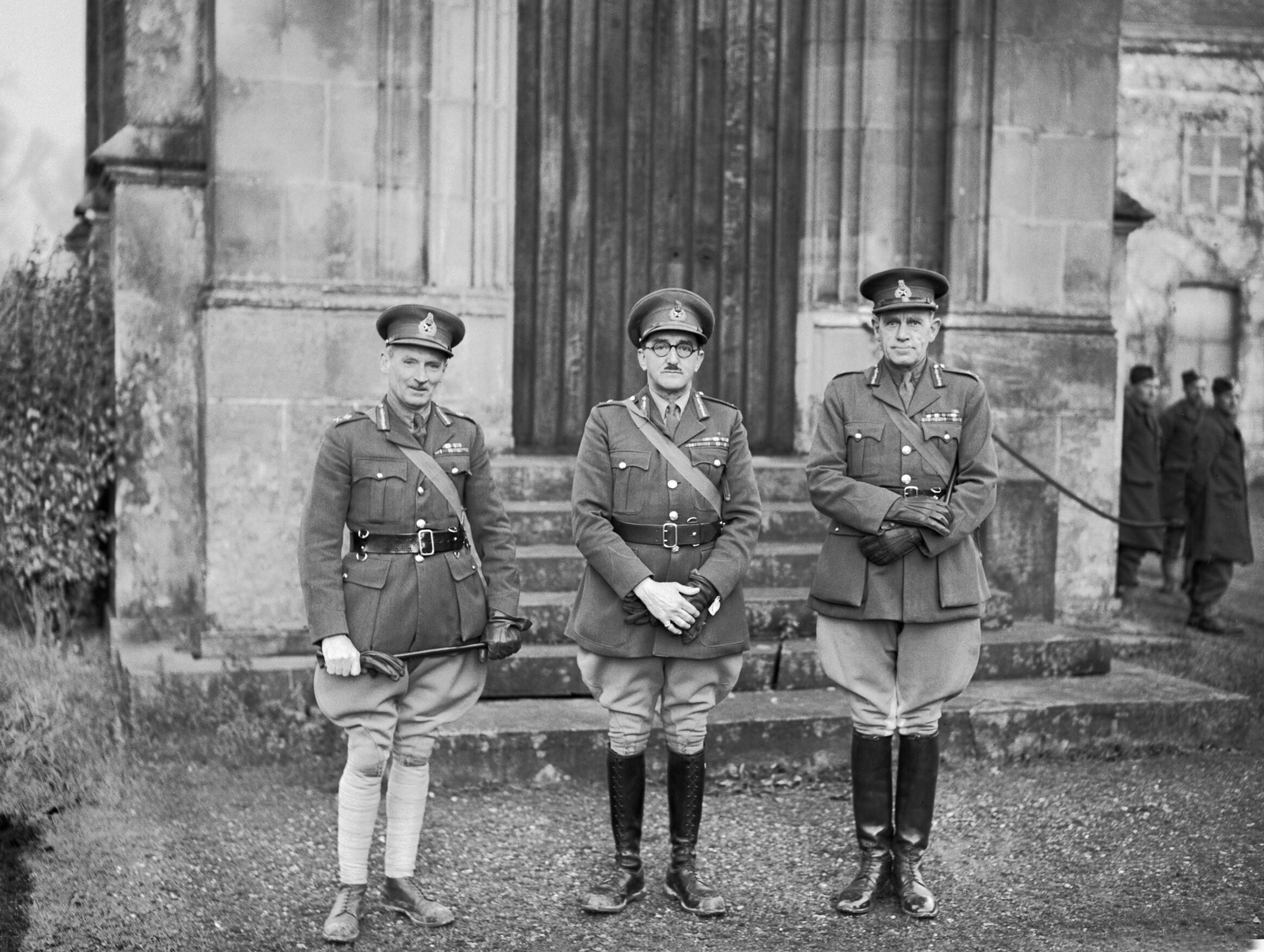 The British Expeditionary Force (bef) in France 1939-1940 British Personalities: Lieutenant General Sir Alan Brooke, GOC (General Officer Commanding) 11 Corps, with Major General Bernard Montgomery, GOC 3rd Division, and Major General D G Johnson, GOC 4th Division.